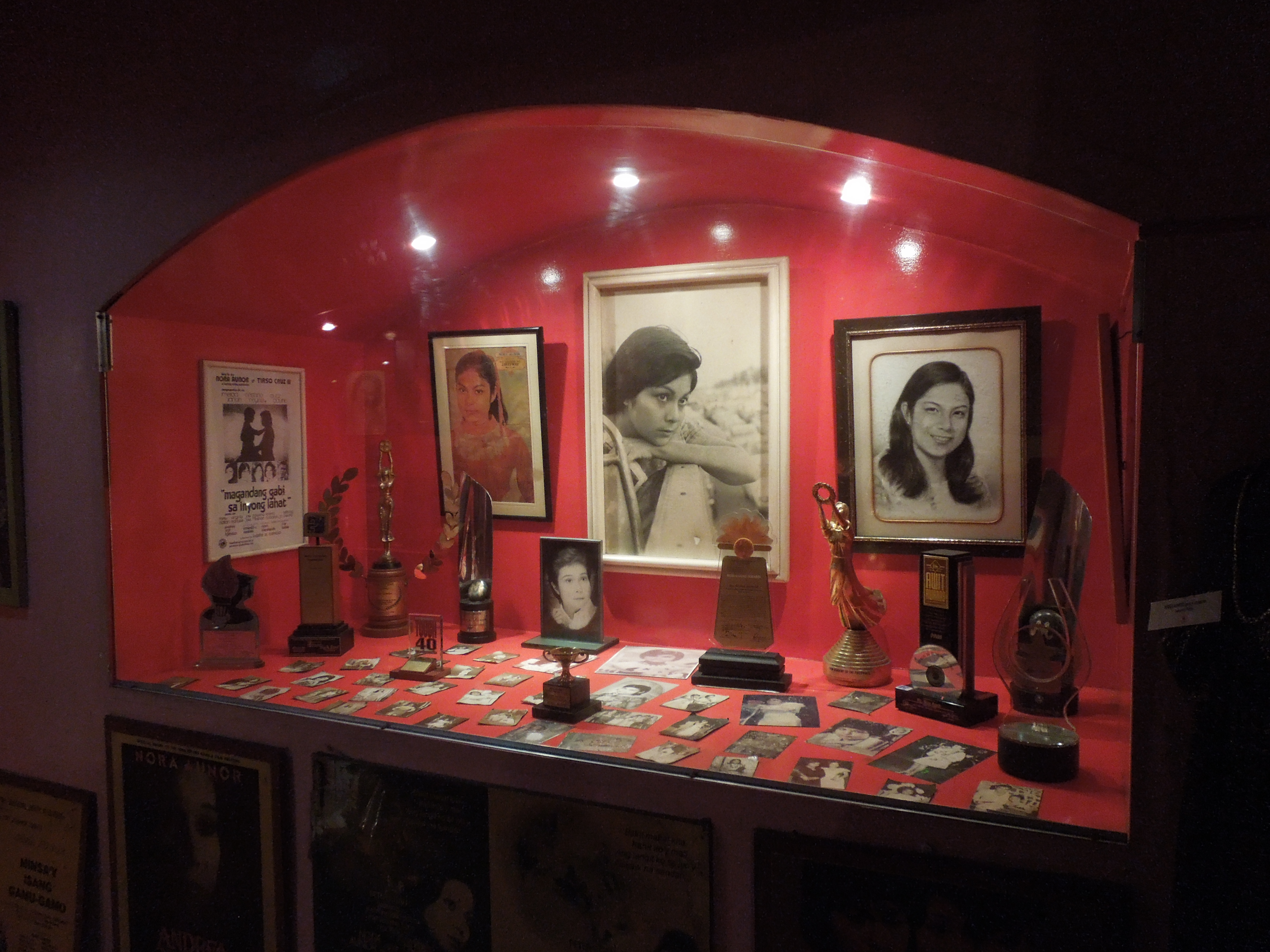 Mowelfund Movie Workers Welfare Foundation Pambansang Museo ng Pelikula (Film Institute, Mowelfund Plaza, Quezon City) 1897-2016 - 100-Years of Film, Cinema history, featuring "Zamboanga (1937)" Philippines 1st, Oldest surviving Feature Film, Photo gallery of Movie stars from Atang de la Rama, the first Movie Star, 100 years old film footages of U.S. Occupation of Philippines Photos from Carmen Rosales to Ryzza Mae Dizon, Paradise of Stars of German Moreno, Walk of Fame, Regal Entertainment, Inc. Founded 1974 by Joseph Estrada, National film museum opened August 19 2005 or 108 years after the birth of cinema Philippines, housed at the Mowelfund building at Mowelfund Plaza Complex by J.T. Manosa & Associates, Boots Anson-Roa, Mowelfund executive director, Movie Workers’ Welfare Foundation its education arm, the Mowelfund Film Institute - Movie Workers Welfare Foundation, Number 66 Rosario Drive corner Ilang-Ilang Street, List of barangays of Metro Manila Legislative districts of Quezon City, Barangays of Quezon City, Barangay Immaculate Conception (Betty Go-Belmonte), bounded by Mariana, Cubao and New Manila, District IV, Quezon City, from E. Rodriguez corner Aurora Boulevard, Quezon City Major roads in Metro Manila (Note: Judge Florentino Floro, the owner, to repeat, Donor Florentino Floro of all these photos hereby donate gratuitously, freely and unconditionally all these photos to and for Wikimedia Commons, exclusively, for public use of the public domain, and again without any condition whatsoever).